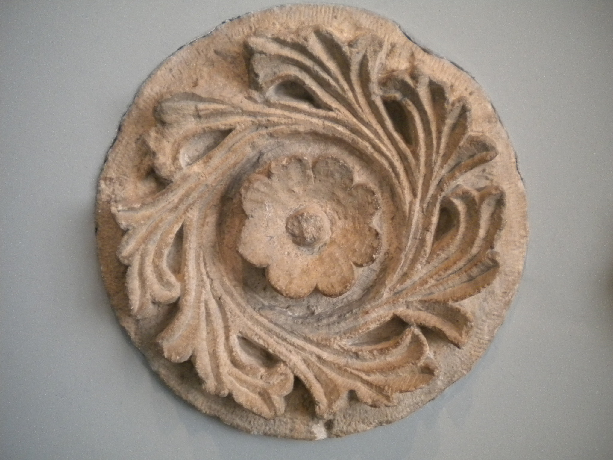 Decoration_at_Umayyad_Palace_at_Khirbat_ul_Minya